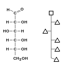 Open form of glucose: Fischer projection and polygonal model.